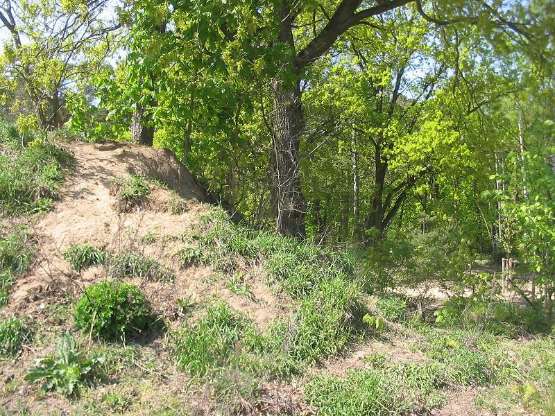 The Murellenberge, the Murellenschlucht and the Schanzenwald (german for: Murellenhill, Murellenravine, Sconceforest) are a hill-landscape from the last gacial period in Berlin-Ruhleben in the district Charlottenburg-Wilmersdorf. It is part of the Teltow-Plateau at its northside in Berlin. In the hills there is the memorial Denkzeichen zur Erinnerung an die Ermordeten der NS-Militärjustiz am Murellenberg (german for: Thought-Signs to commemorate the victims of Nazi military justice at Murellenberg), created by the argentine, in Berlin living, artist Patricia Pisani in 2002.